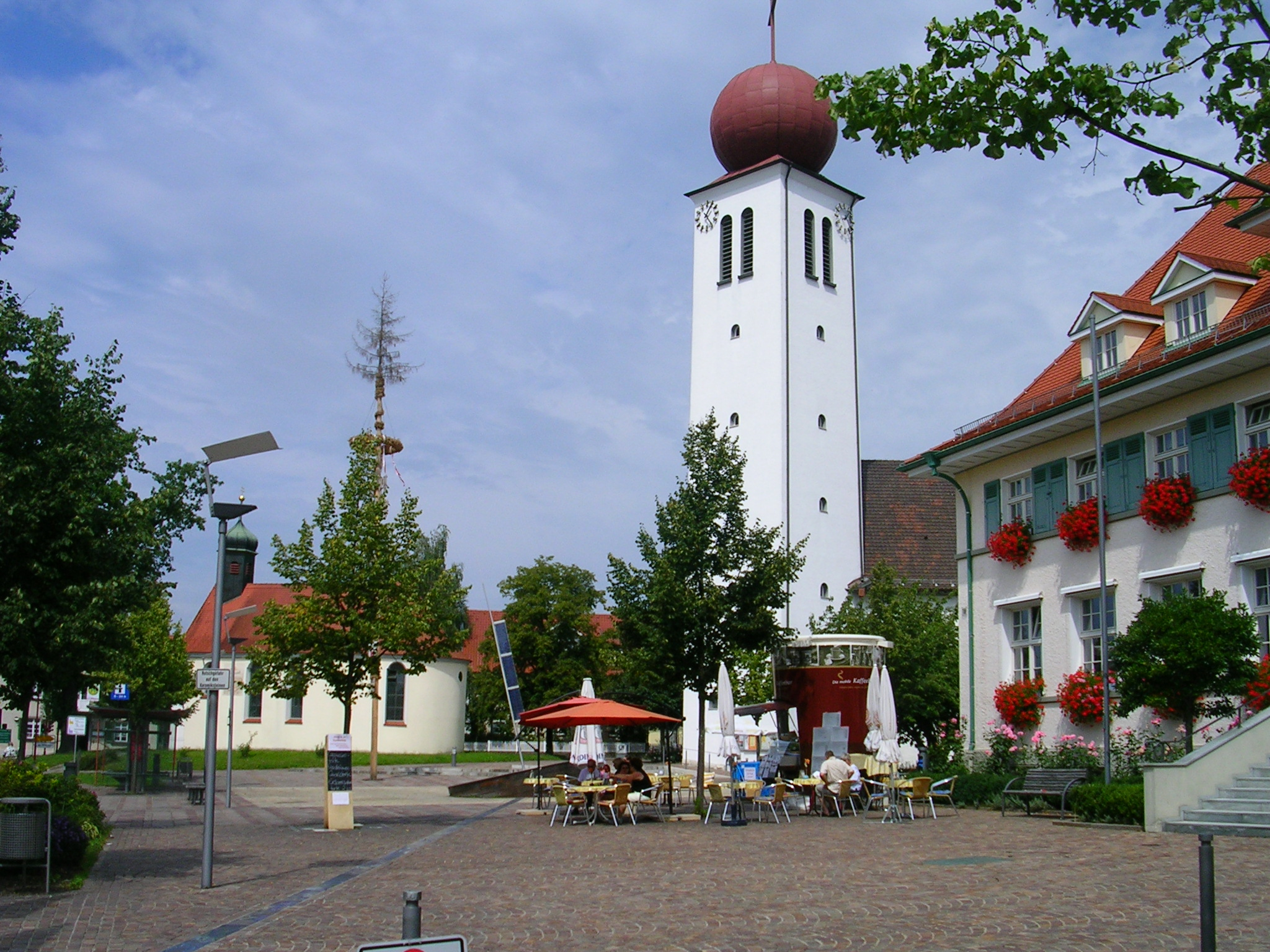 Church and chapell, Kressbronn, Lake Constanze.